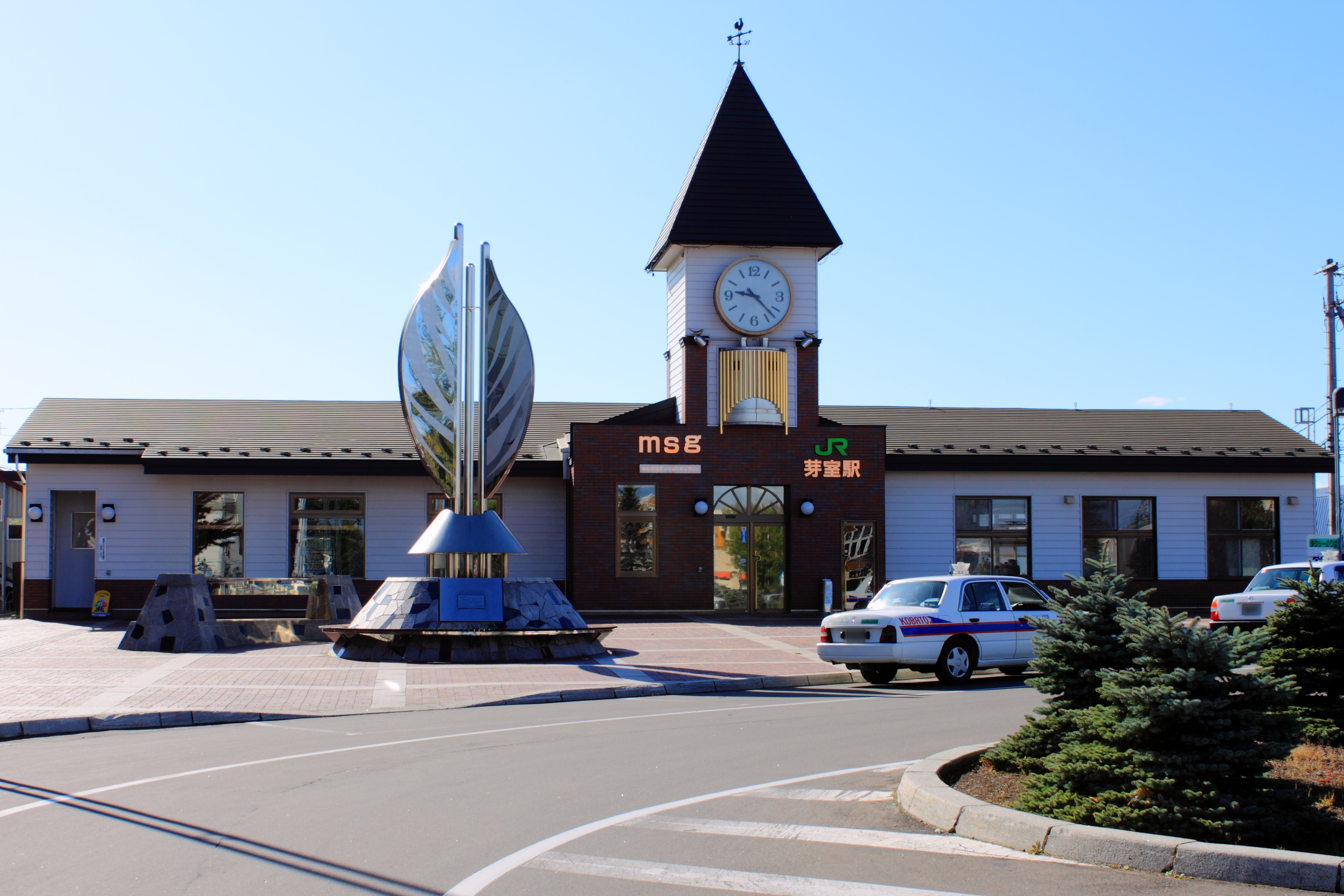 Memuro Station, Memuro, Hokkaido, Japan